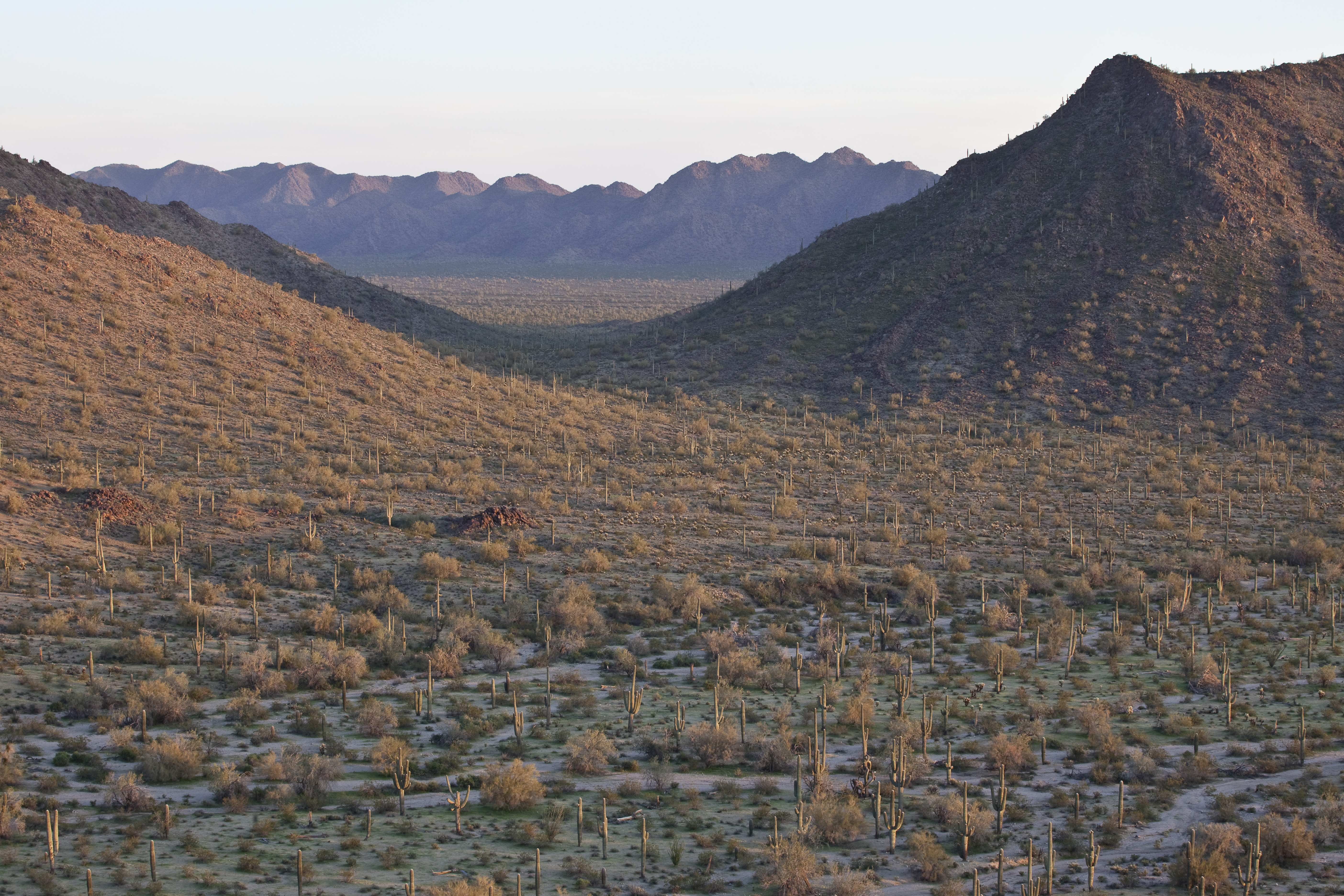 The monument offers many opportunities to explore and discover the secrets of the Sonoran Desert and includes three wilderness areas, the North Maricopa Mountains Wilderness, the South Maricopa Mountains Wilderness, and the Table Top Wilderness. These wilderness areas offer excellent opportunities for solitude and unconfined recreation. The North Maricopa Mountains Wilderness has two hiking and equestrian trails, the 9-mile Margie’s Cove Trail and the 6-mile Brittlebush Trail. The Table Top Wilderness also has two hiking and equestrian trails, the 7-mile Lava Flow Trail and the 3-mile Table Top Trail. A section of the Juan Bautista de Anza National Historic Trail crosses the national monument. This congressionally designated trail parallels the Butterfield Overland Stage Route, the Mormon Battalion Trail, and the Gila Trail. A four-wheel-drive accessible route follows the trail corridor for approximately 10 miles through the national monument. For more information, visit: Photo: Bob Wick, BLM California